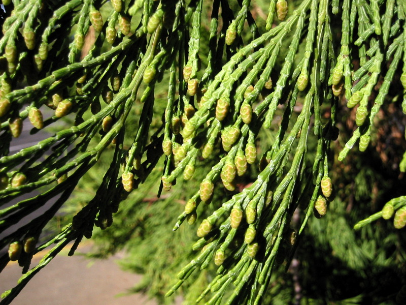 Calocedrus decurrens Description: Incense-cedar, Calocedrus decurrens, foliage Viewpoint location: North end of Manzanita Safety Rest Area, Southbound Interstate 5, milepost 62.8, 6 miles north of Grants Pass, Oregon. Lat/Long: 42.5164°N, 123.3654°W (WGS84/NAD83) USGS Sexton Mountain Quad [1] Viewpoint elevation: 1260' View direction: North Date and time: 2005.10.22 12:05:58 PDT Camera: Canon PowerShot S110 Photographer: Walter Siegmund ©2005 Walter Siegmund